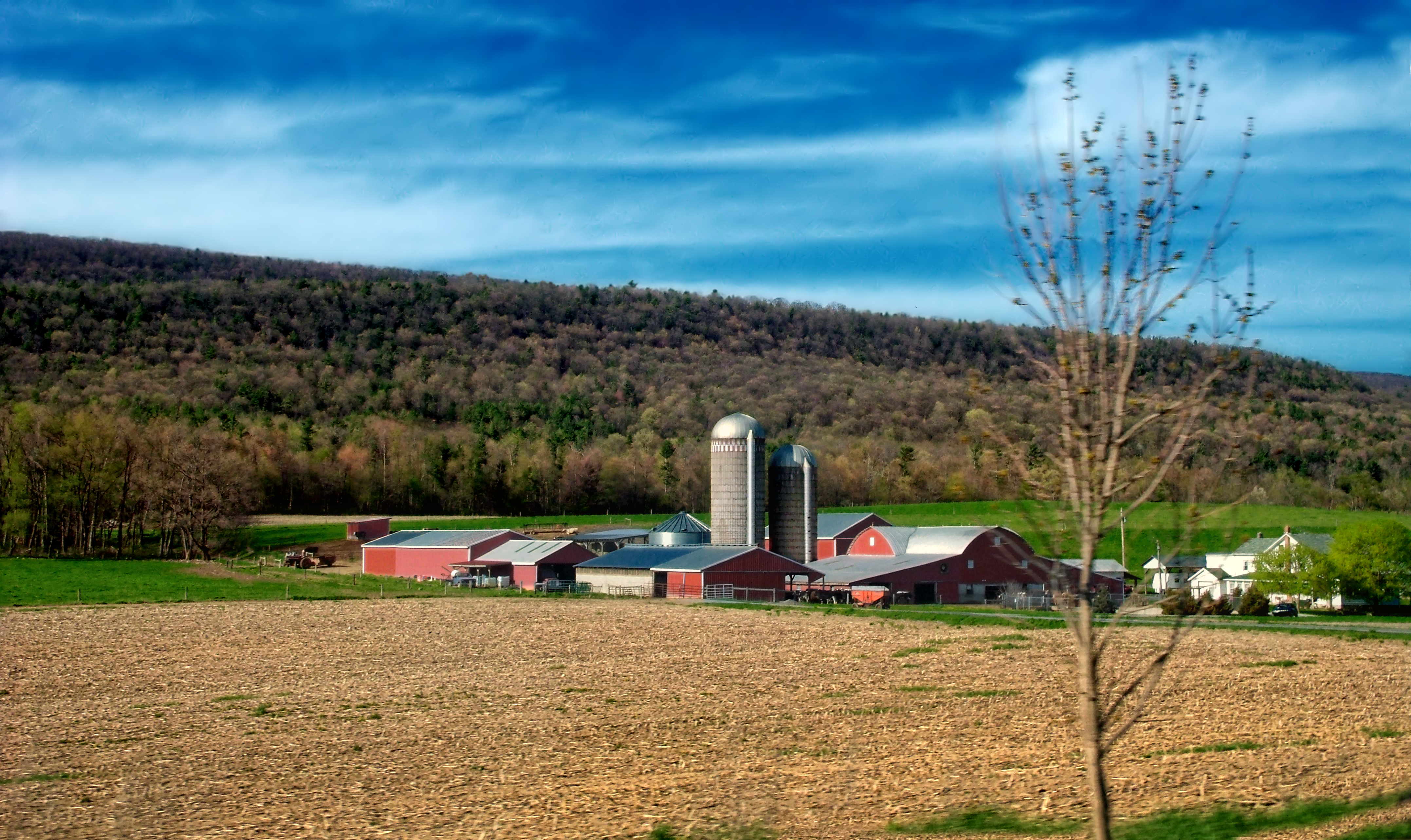 Late-day light, Haines Township, Centre County, Pennsylvania